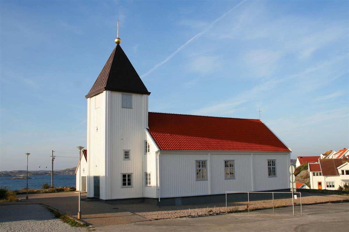 Klädesholmen Church